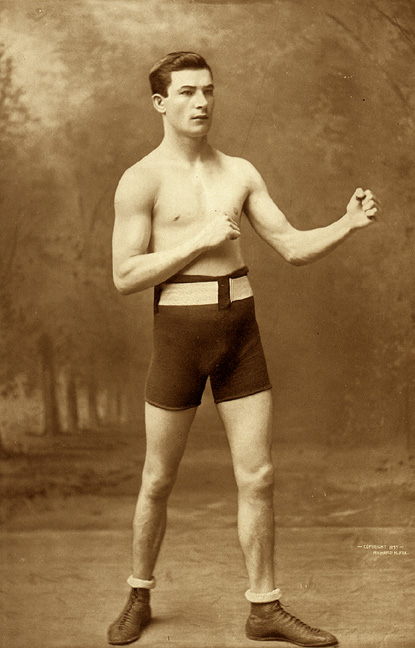 This is a black and white photo of Welterweight Boxing Champion Eddie Connolly, with dark trunks taken in front pose with leading left hand.